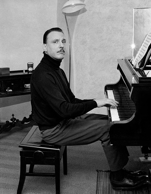 Arturo Benedetti Michelangeli, the famous Italian pianist, is sitting at the piano looking at the camera with a serious expression. Bolzano (Italy), December 1960